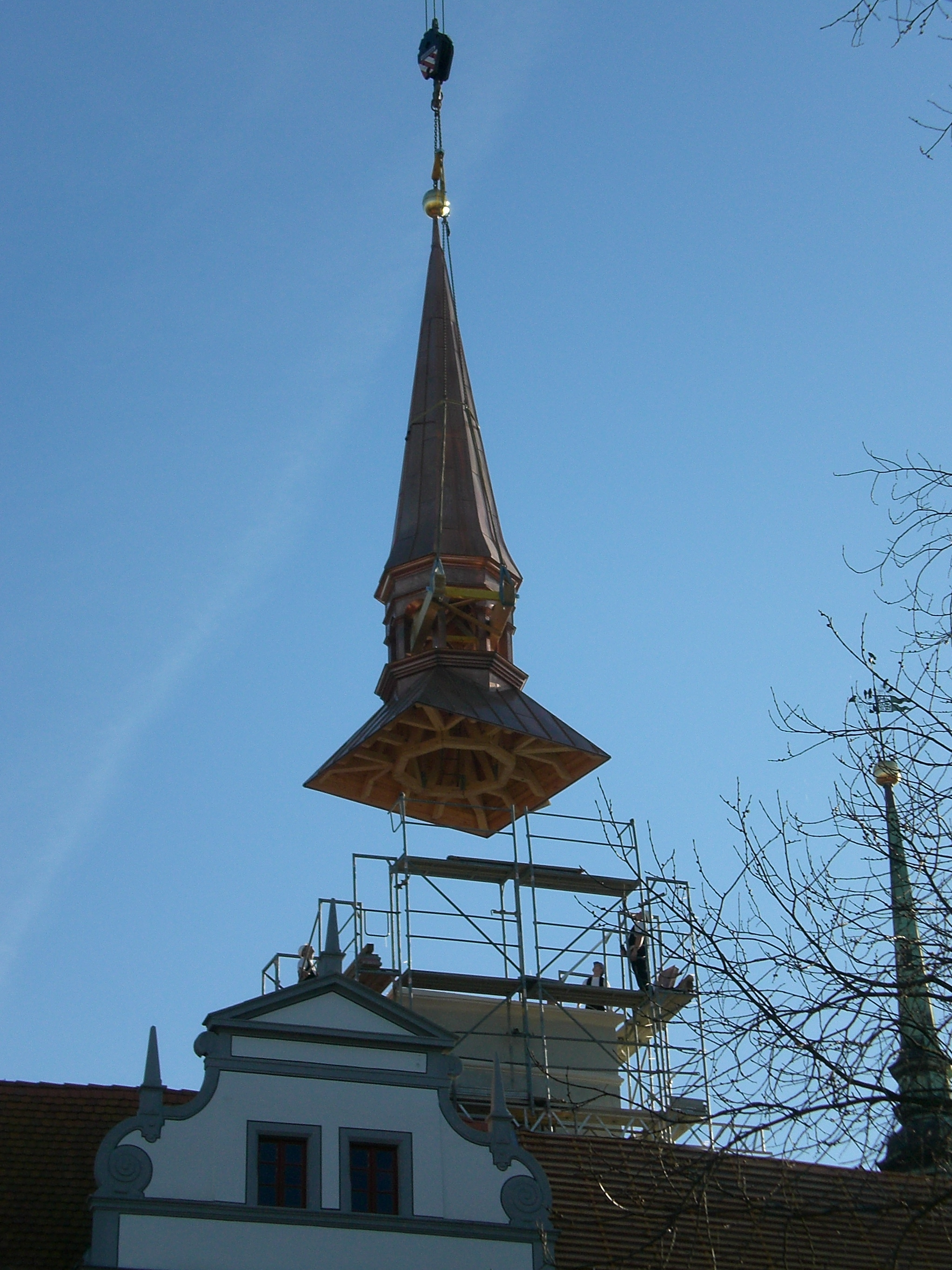 New Spire of Schloss Doberlug in Doberlug-Kirchhain